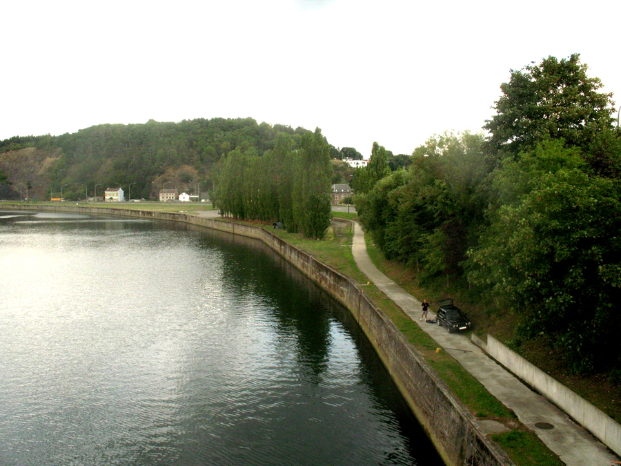 Taken from Ombret, view of the Thier d'Olne (hill in Hermalle-sous-Huy, Belgium) and part of the RAVel (road for slow traffic) from Huy to Liege.